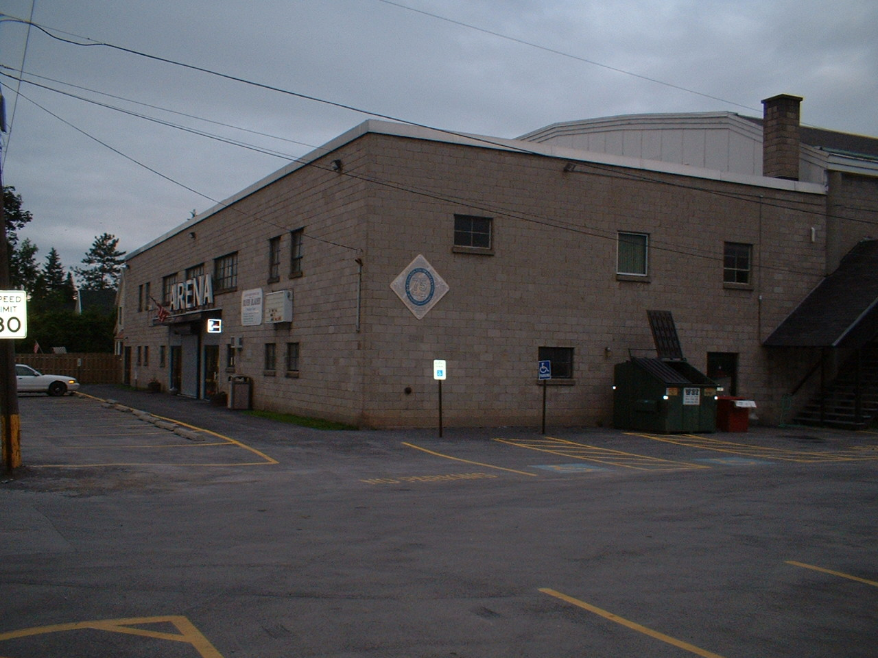 Photo of the Clinton Arena in Clinton, New York in 2004 (alternate view.)